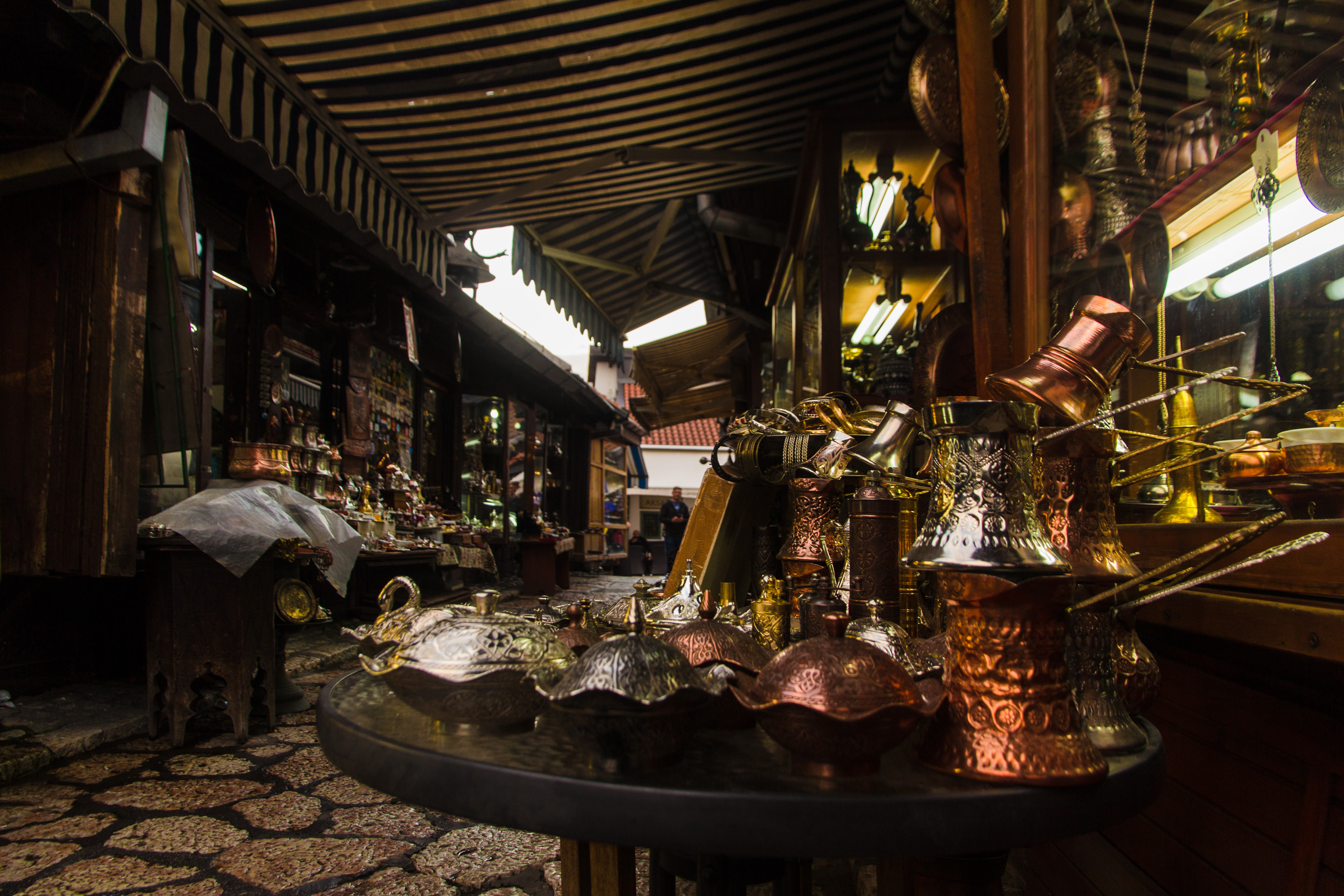 Shops in Baščaršija, September, 2017